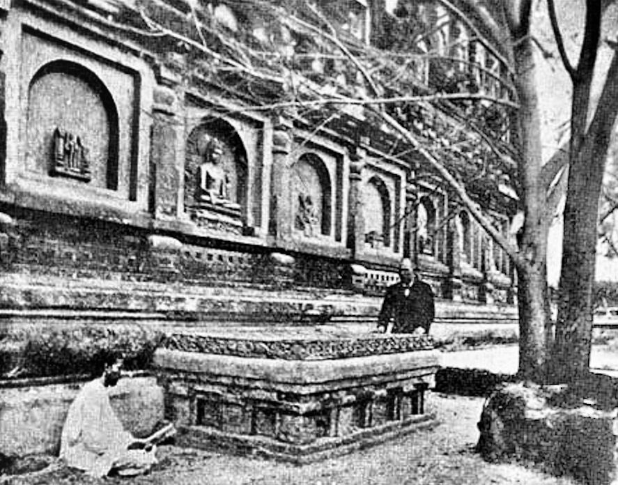 Anagarika Dharmapala (1864-1933) at the Vajrasana, Bodh Gaya